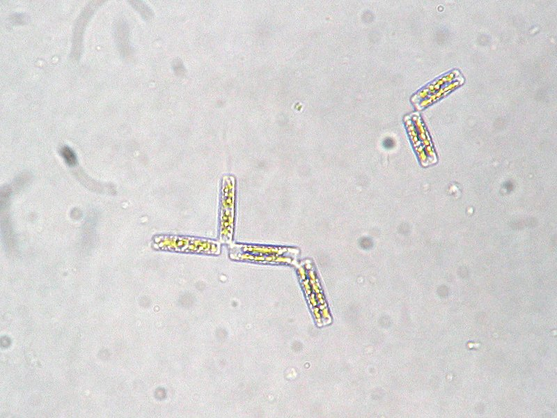 This work is free and may be used by anyone for any purpose. If you wish to use this content, you do not need to request permission as long as you follow any licensing requirements mentioned on this page.